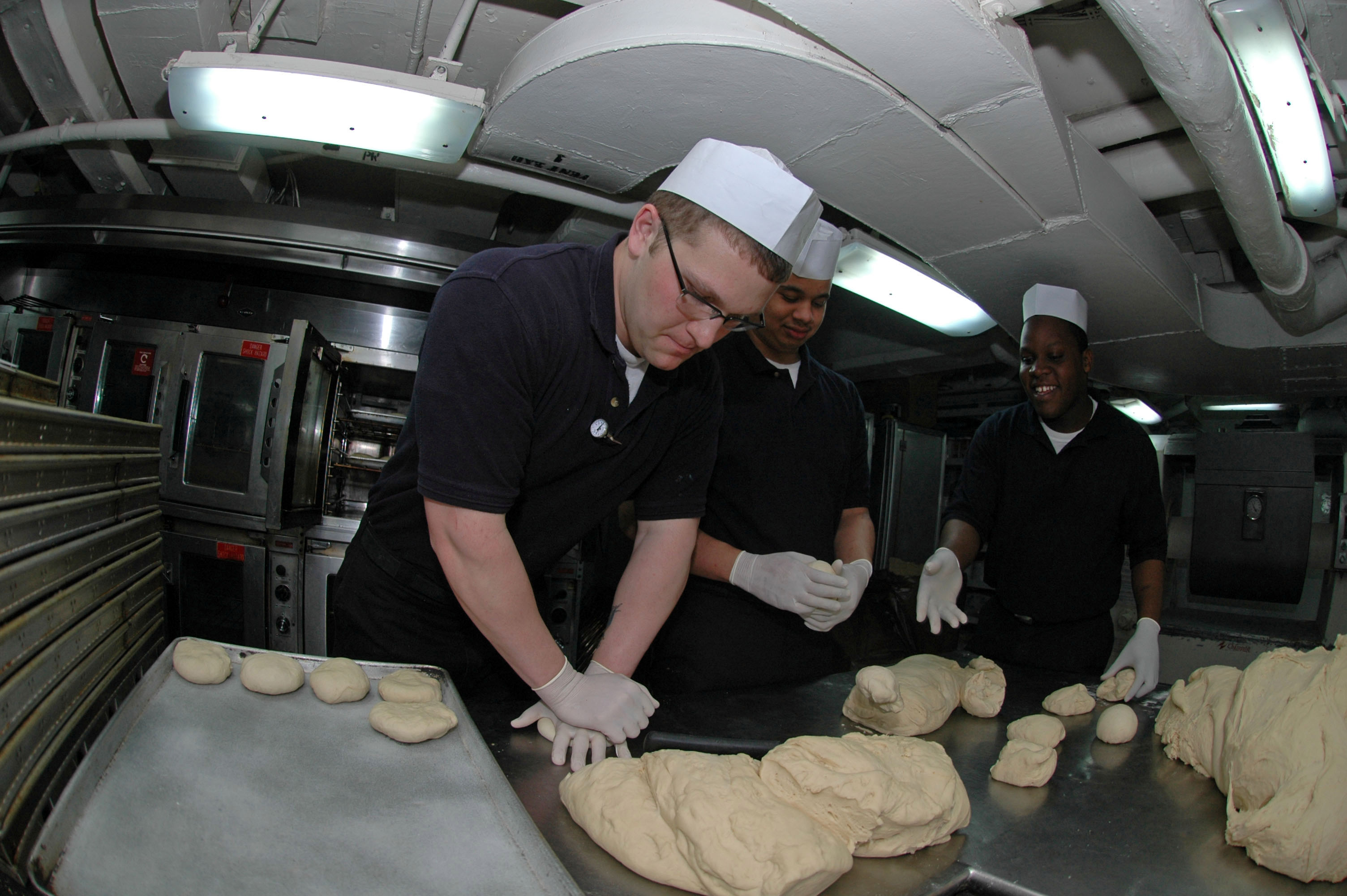 PACIFIC OCEAN (Oct. 30, 2007) - Culinary Specialist Seaman Brandon Freeman, of Lakeland, Fla., kneads dough into rolls in USS Kitty Hawk's bake shop. While underway, Kitty Hawk's bakeshop produces more than 900 loaves of bread a day. U.S. Navy photo by Mass Communication Specialist 3rd Class Dylan Butler (RELEASED)